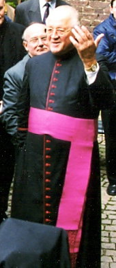 Richard Schulte, priest of Kevelaer, Germany.